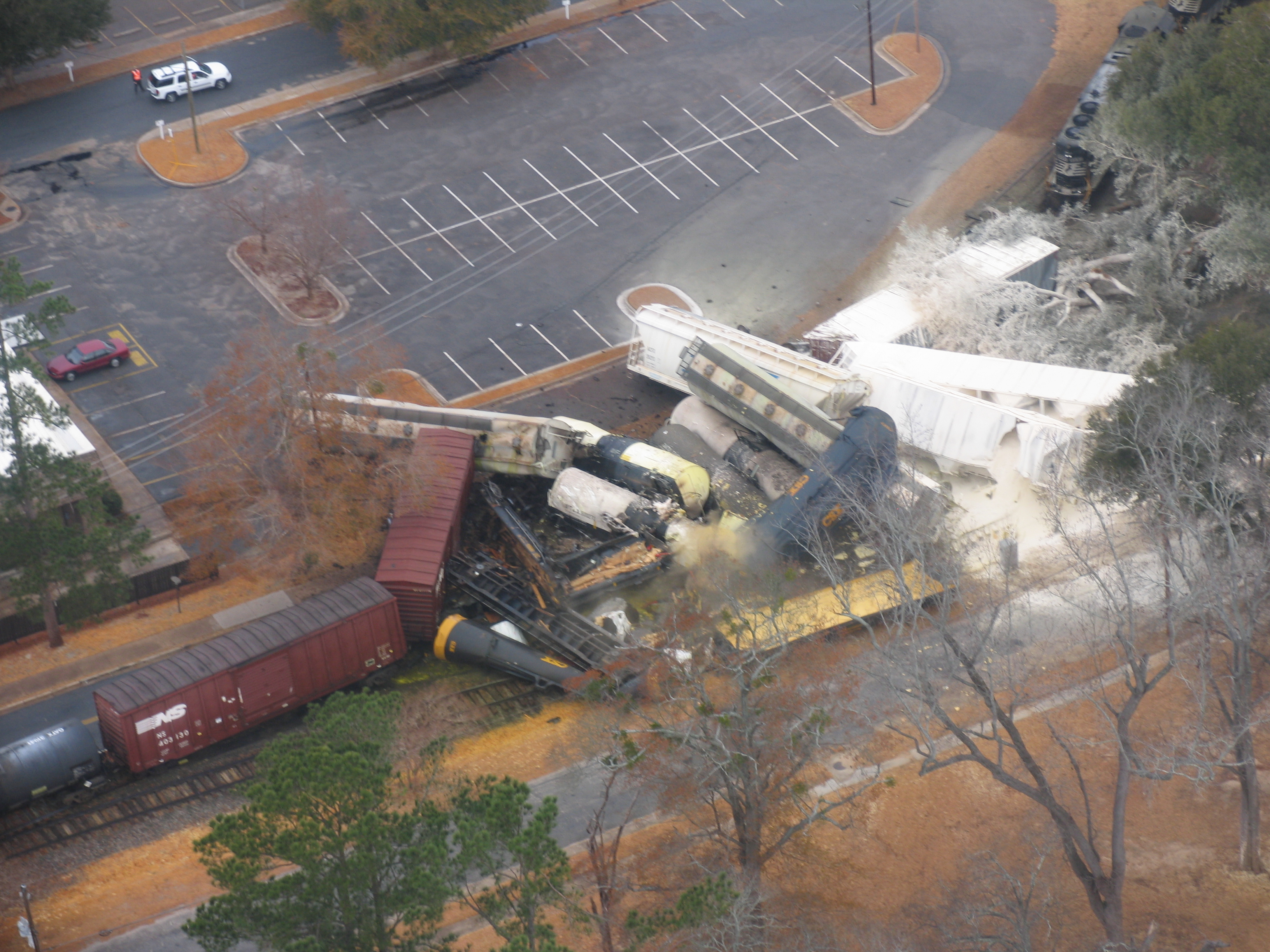 View od Graniteville Train Wreck, the morning after from above, by Eddie George, Aiken DPS.